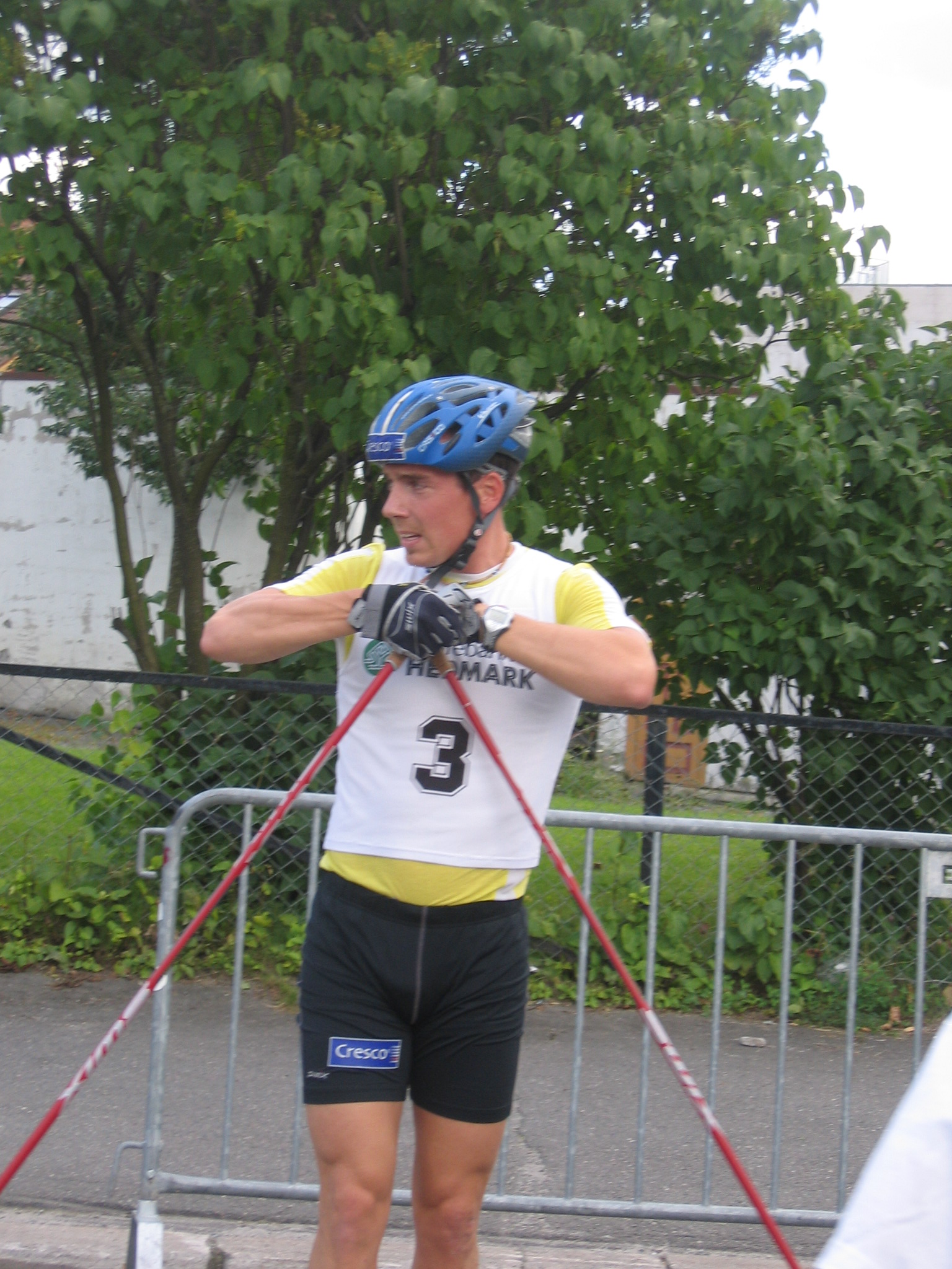 The Norwegian cross-country skier Eldar Rønning under Kirkebakken Grand Prix 2007 in Hamar, Norway.